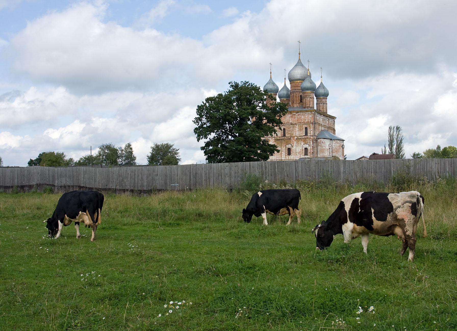 Russian landscape / Rostov, Russia